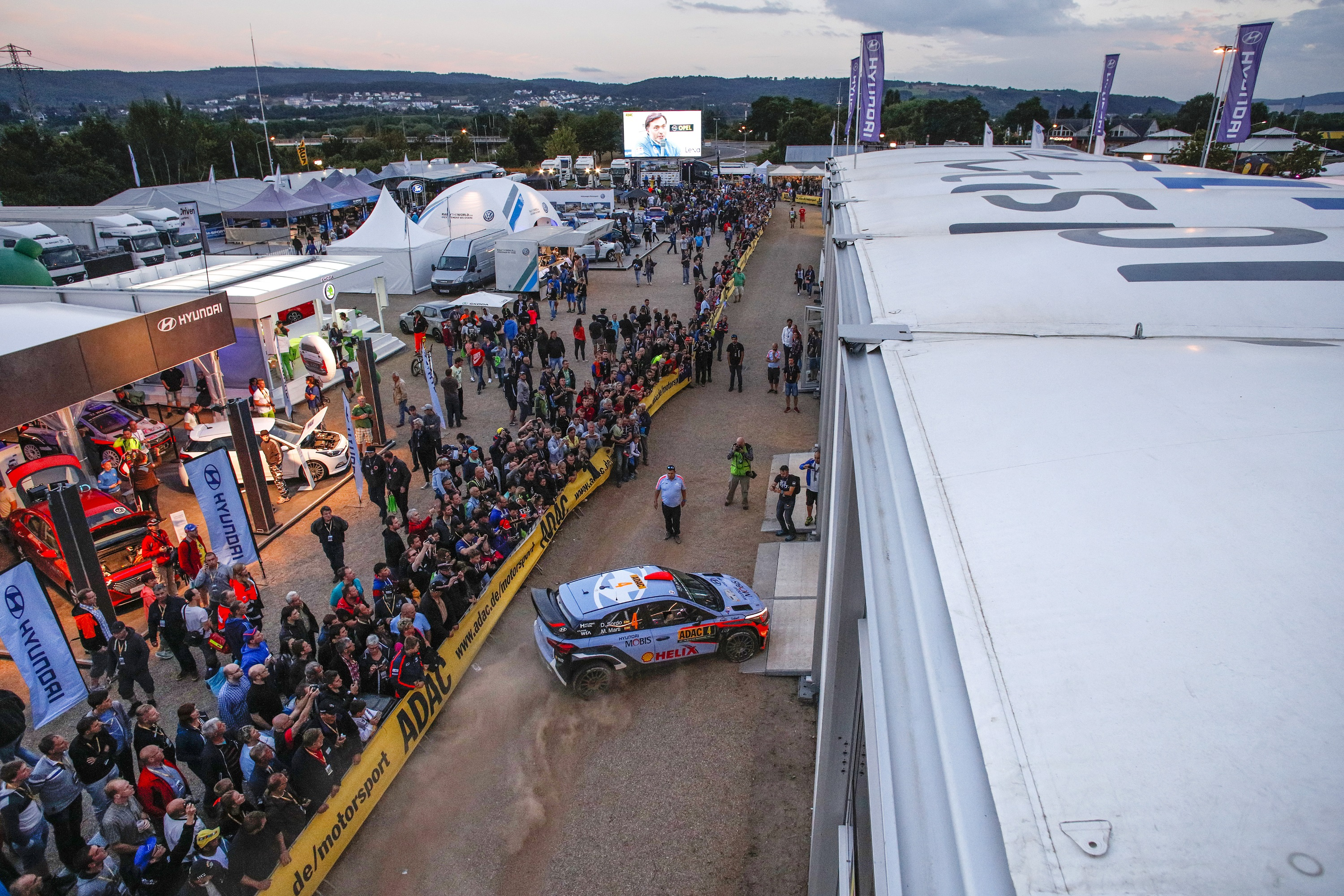 Dani Sordo and co-driver Marc Martí in their Hyundai i20 WRC at the 2016 Rally Germany, Round 9 of the 2016 World Rally Championship.